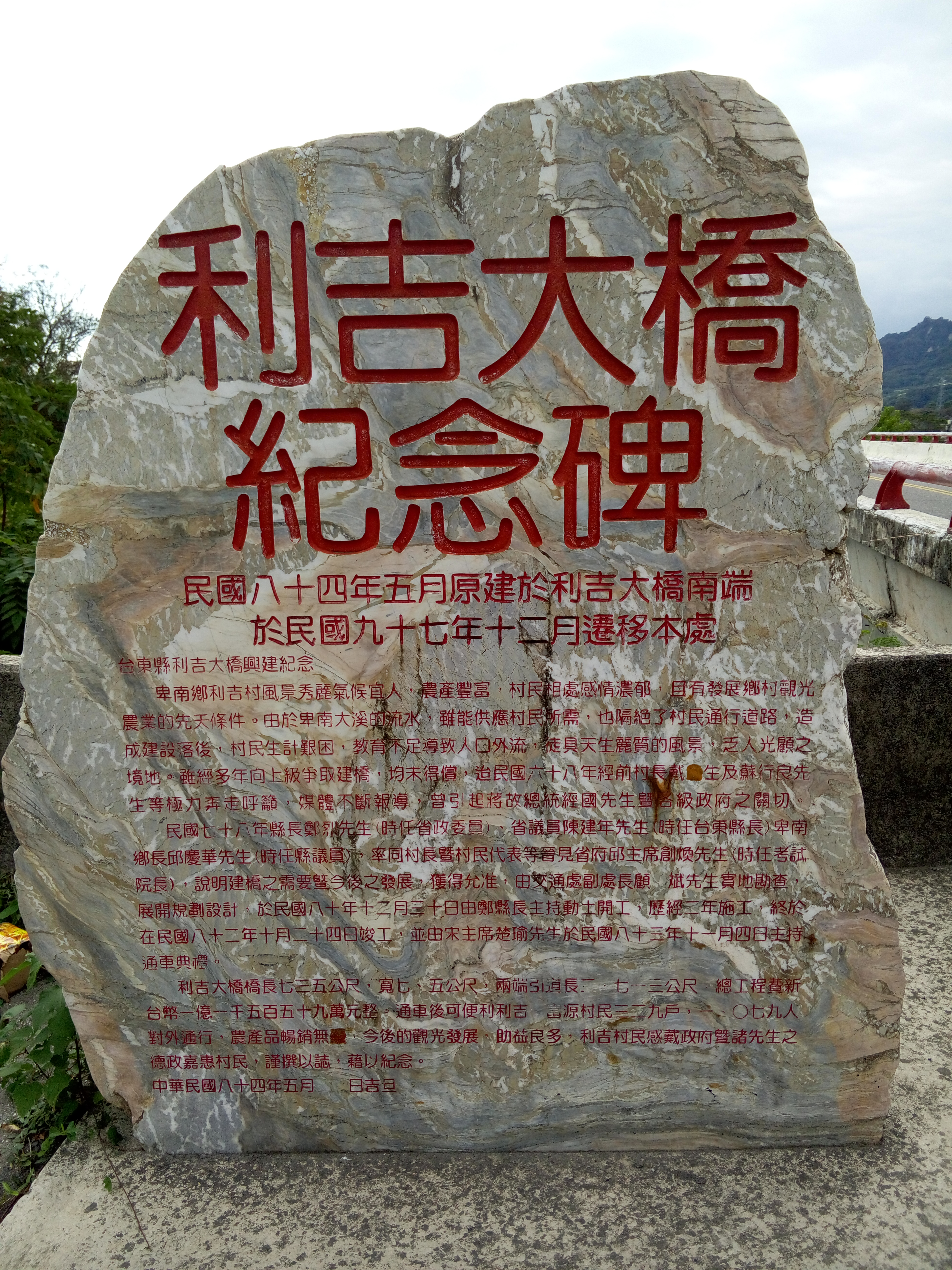 Liji Bridge Monument, Taitung County